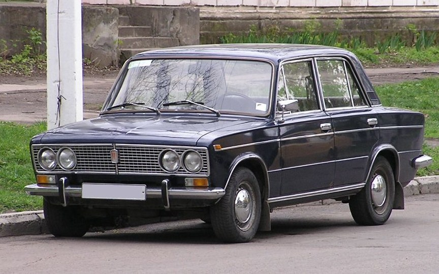 VAZ-2103.